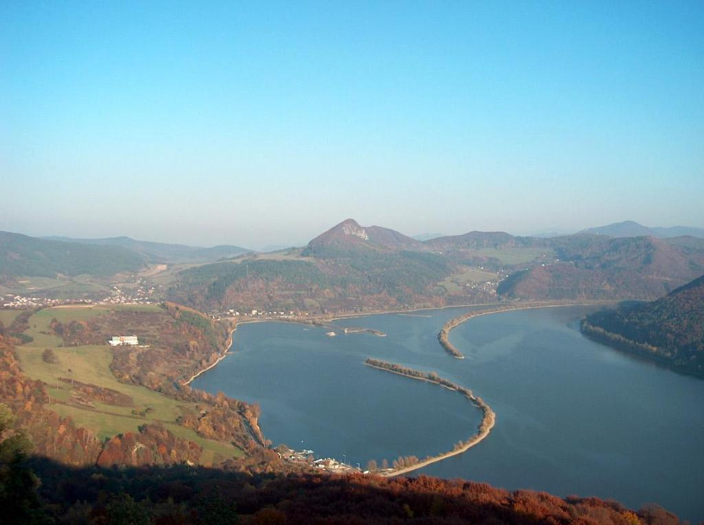 Bay of slovak village Udica